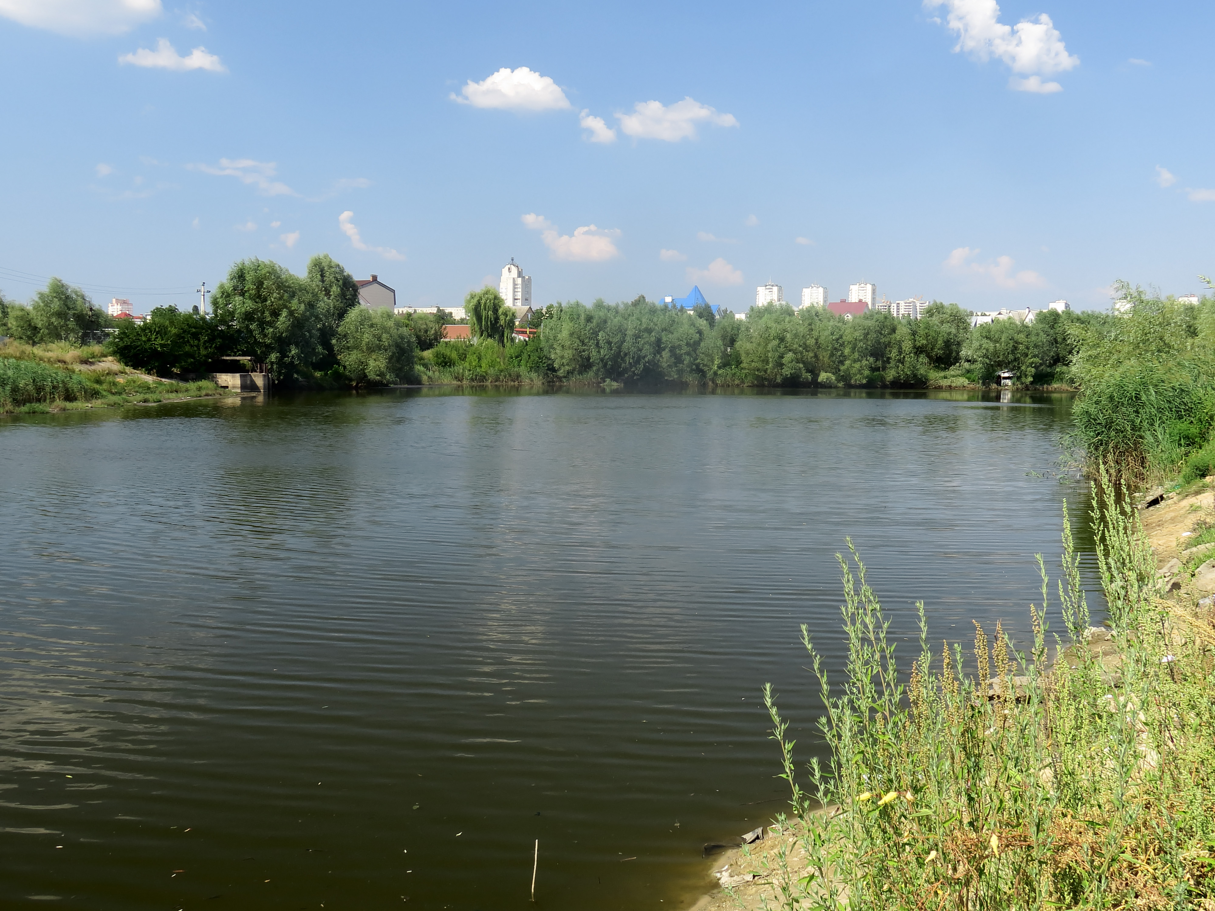 Pond in Sofiivska Borshchahivka (Nyvka, or Borshchahivka river), Kiev oblast, Ukraine